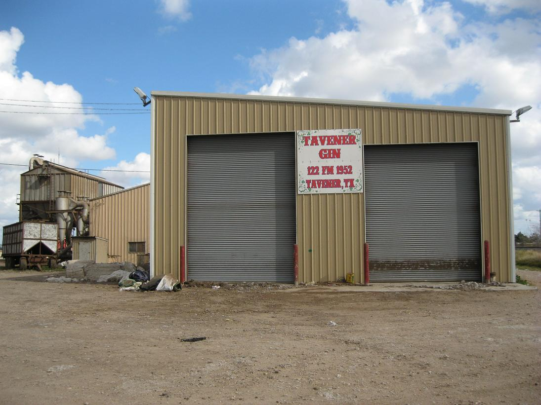 Photo shows the front of the Tavener Gin, a cotton gin. It is located at the intersection of US 90A and FM 1952 in Fort Bend County, Texas.